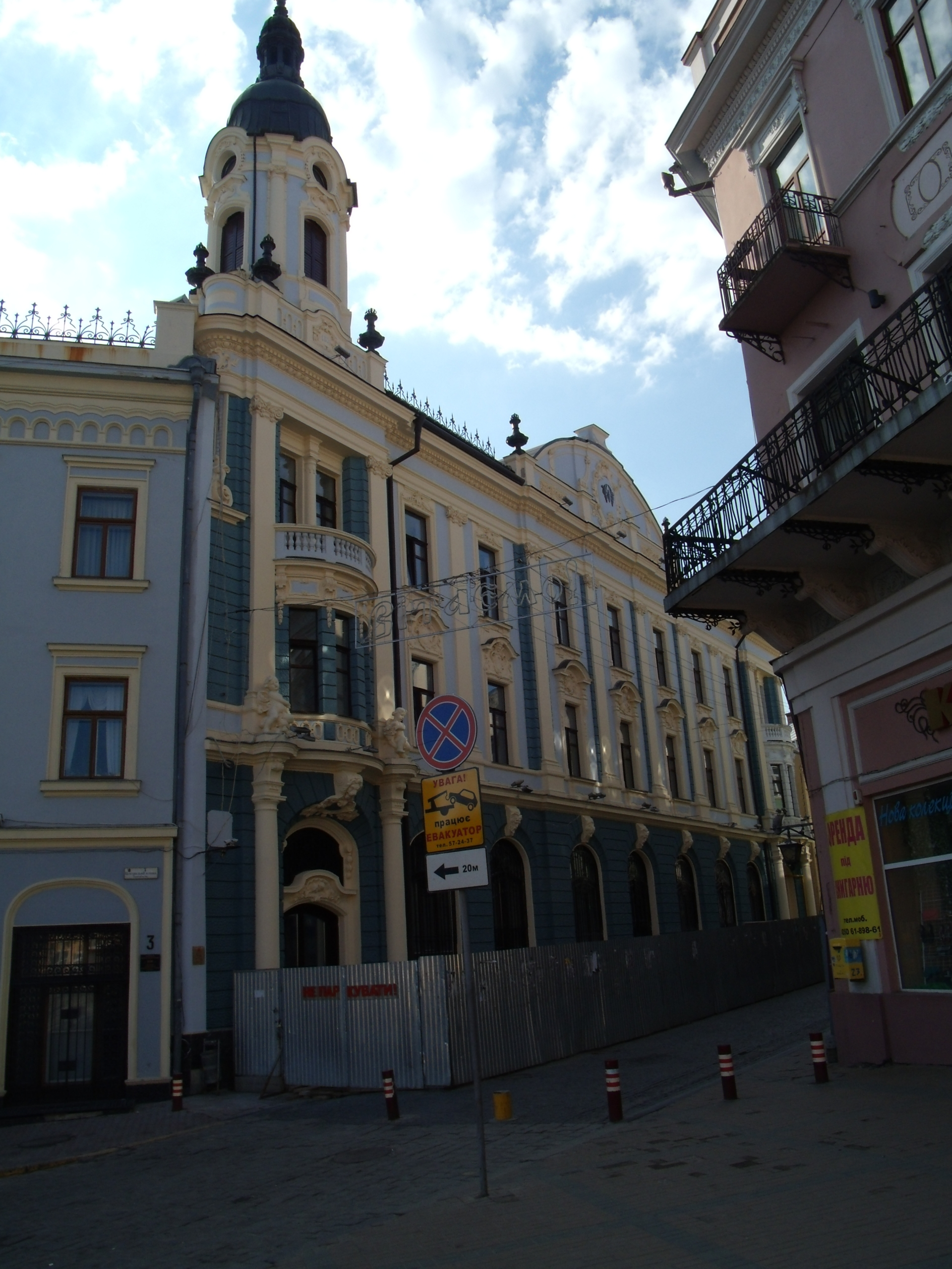 Chernivtsi, Kobylianska house 1